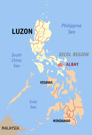 Map of the Philippines showing the location of Albay